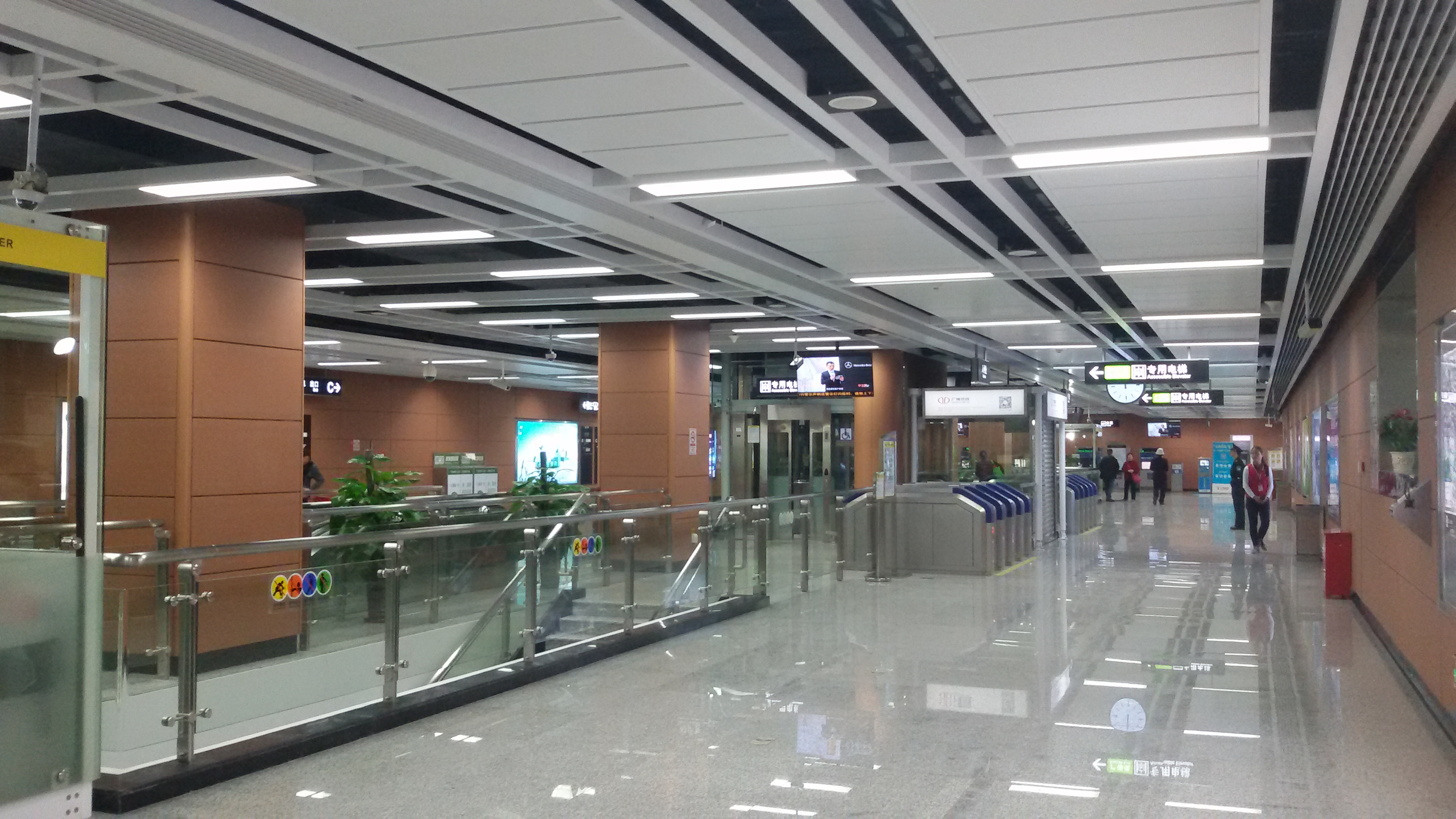 Concourse for Hedong Station in FMetro.